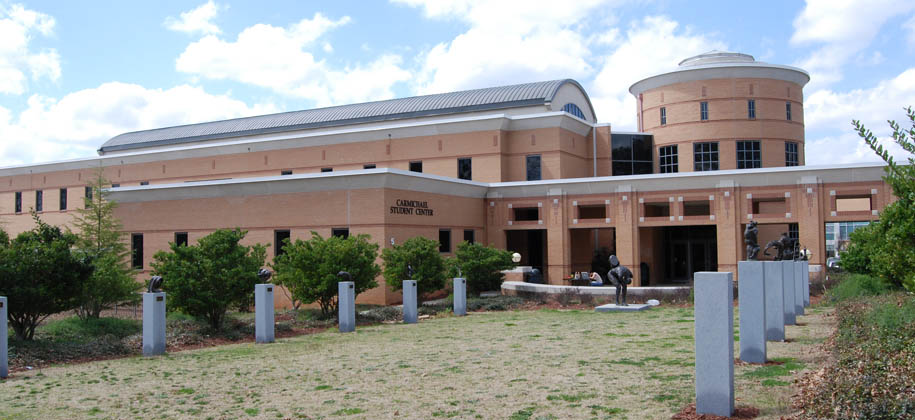 Photograph of the Student Center located on the Kennesaw State University campus in Kennesaw, Georgia. This photograph is one of a series taken for Wikipedia by the submitter on March 22nd, 2007 between the hours of 12pm and 2pm. Category:Kennesaw State University